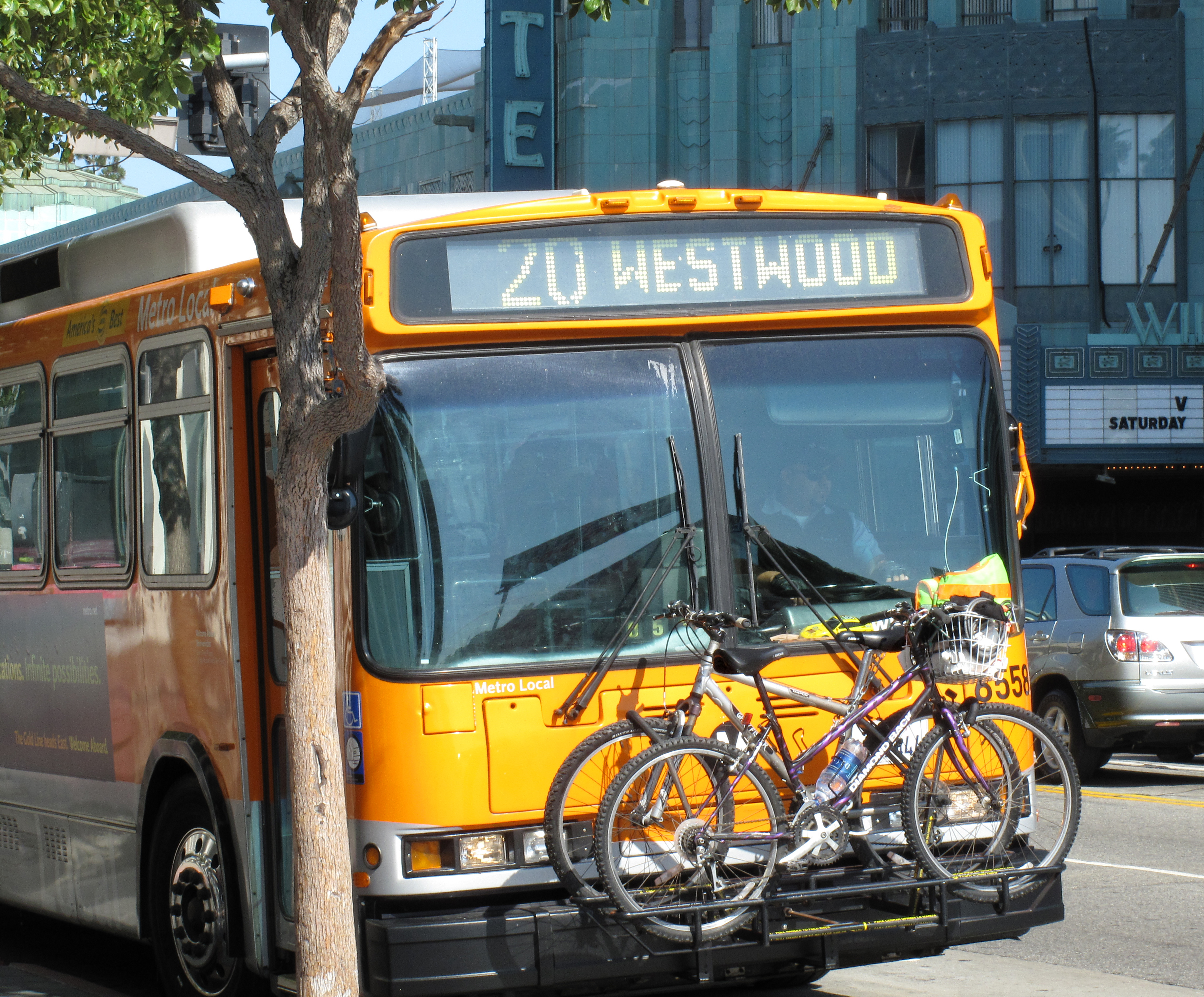 Front of Los Angeles Metro bus line #20 (Wilshire Boulevard local) westbound from Wilshire and Western Avenues in Los Angeles, California. Bus is carrying two bicycles on its rack.